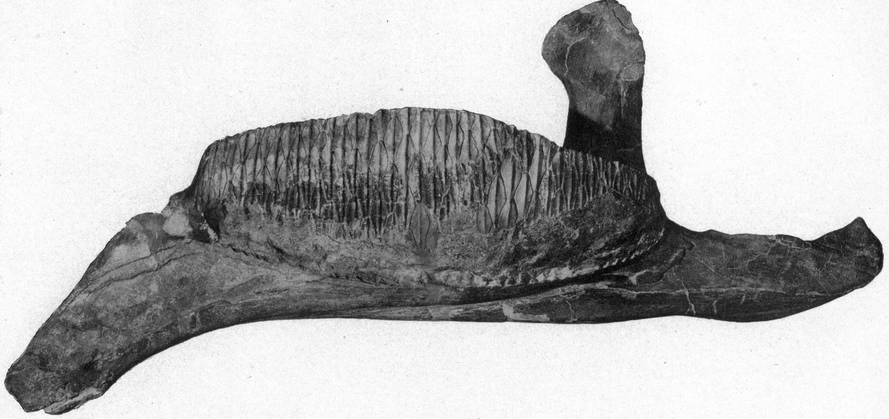 The lower jaw of Kritosaurus navajovius in inner view.